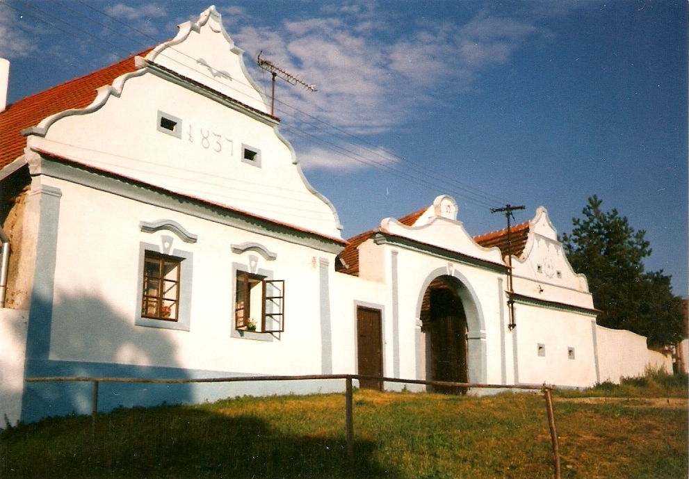 Skály-Budičovice village in Písek district, Czech Republic. Homestead in the "country baroque" style. Rare combination of 3 baroque gables.